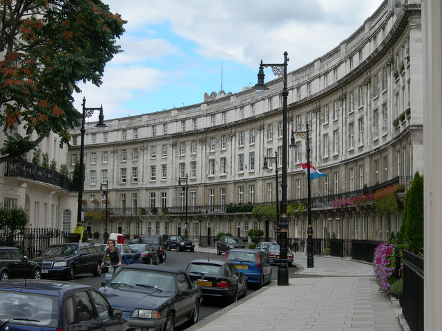 Wilton Crescent, SW1.